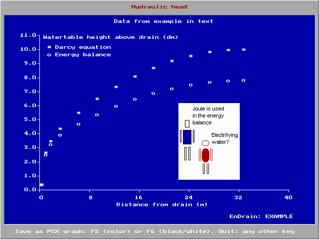 Shape of the water table under subsurface drainage calculated with EnDrain model